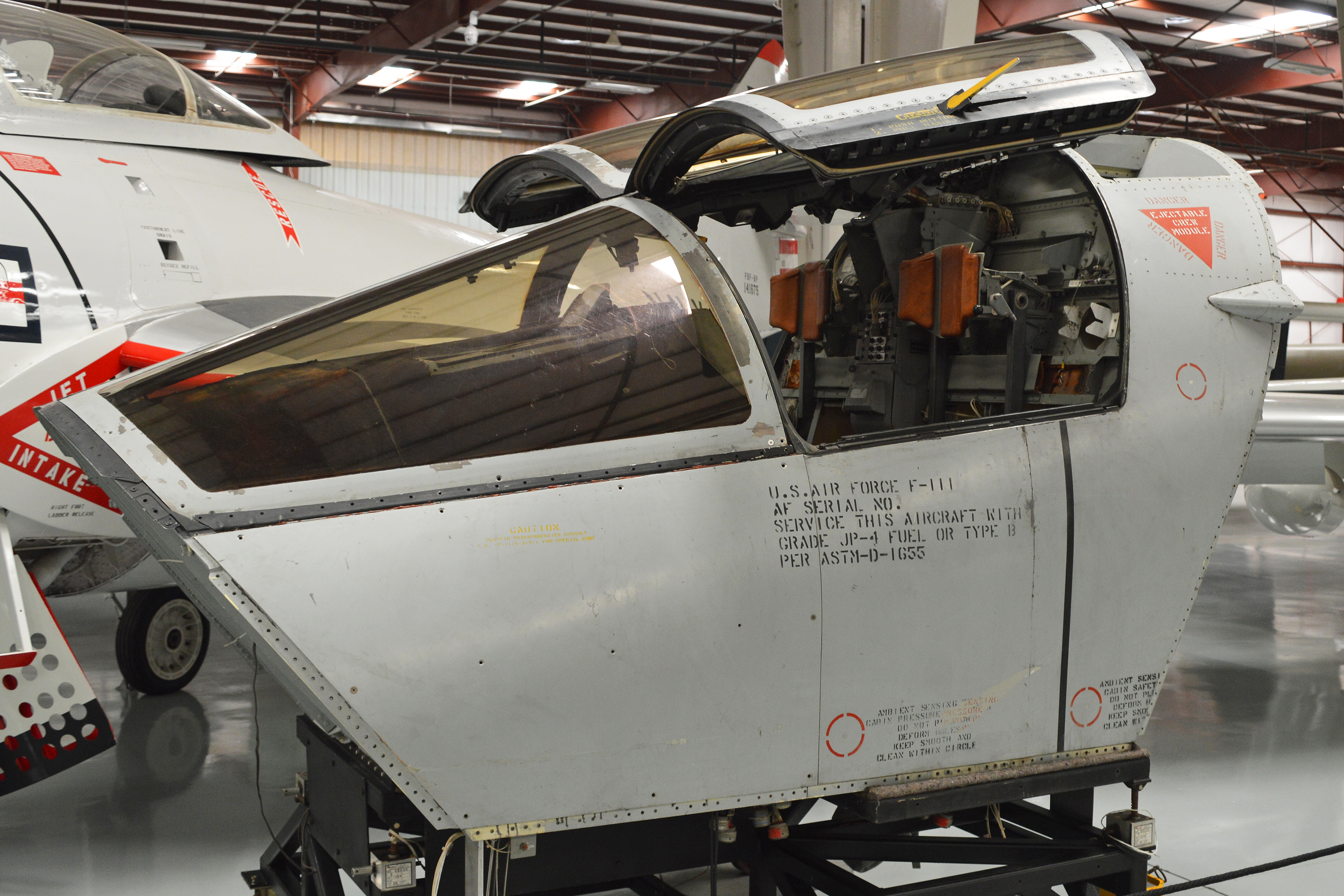 This is the escape system from an F-111, in which this capsule ejects from the aircraft instead of two individual seats. The capsule then descends under it’s own parachute, with the crew remaining inside until safely on the ground. The system was most effective and saved many lives throughout the F-111s service life. This example is on display in Hangar 2 at the Yanks Air Museum, Chino, California, USA. 28-2-2016.